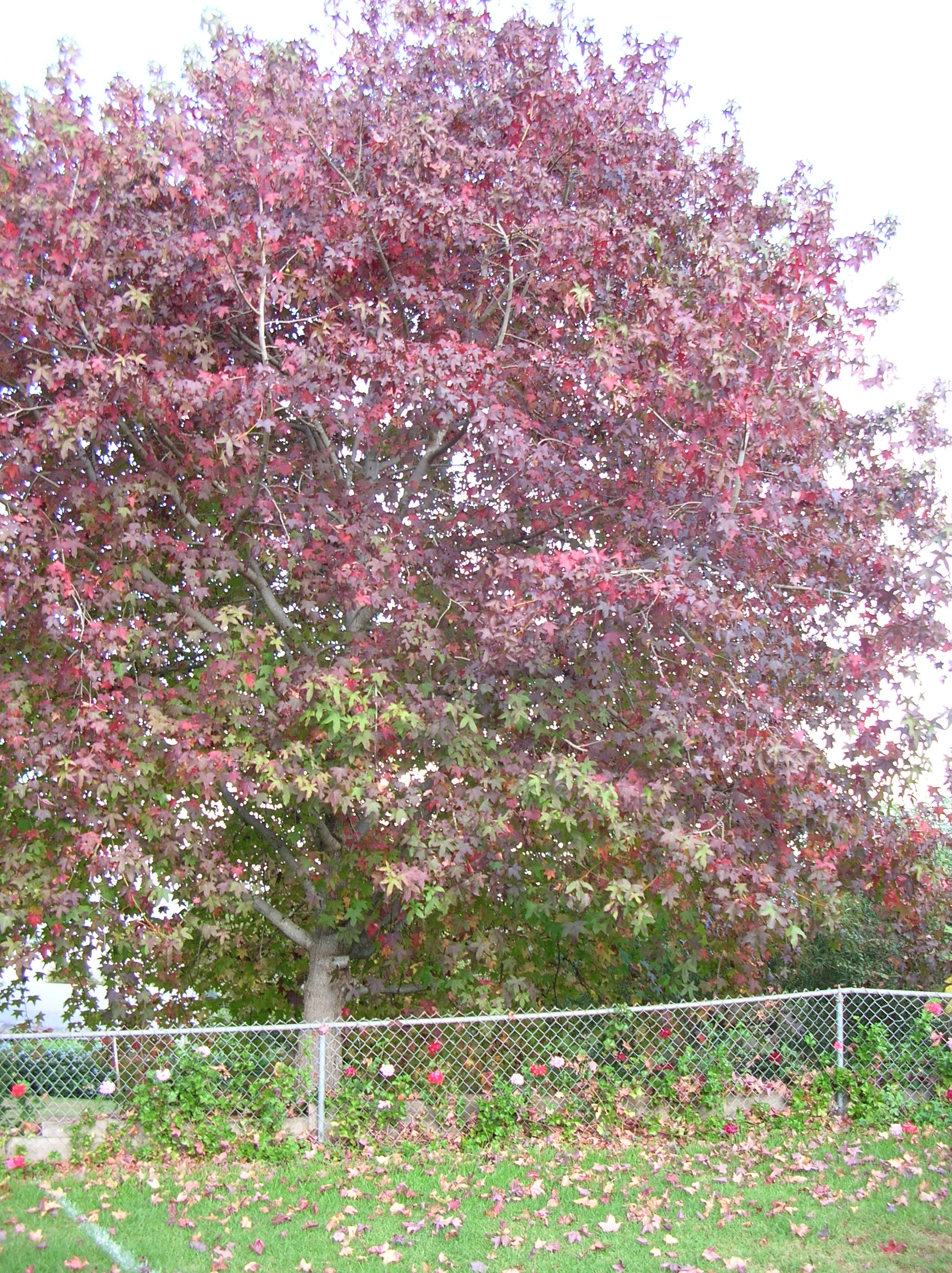 Liquidambar styraciflua (habit). Location: Maui, Keokea